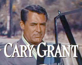 Cropped screenshot of Cary Grant from the trailer for the film To Catch a Thief